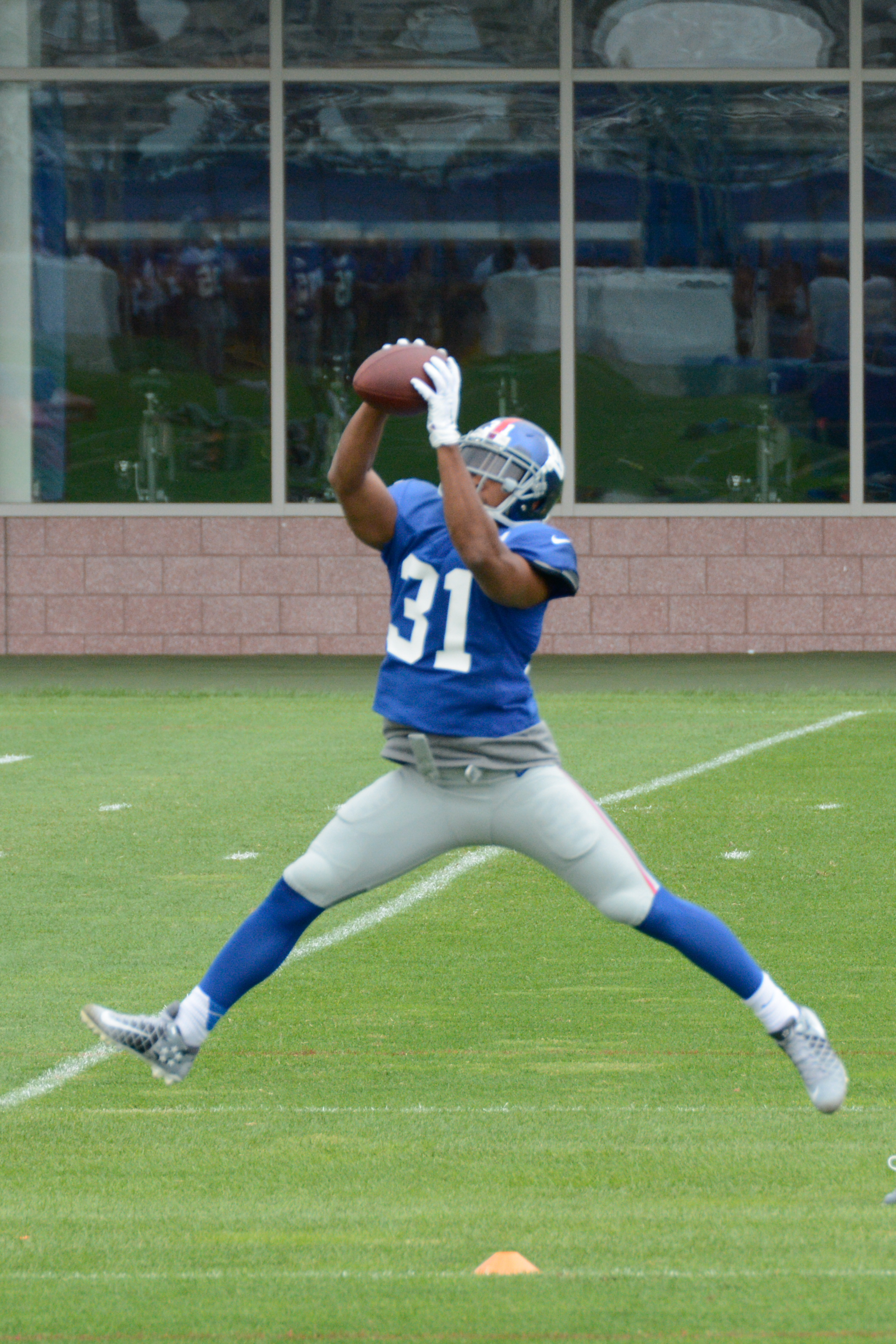 New York Giants training camp